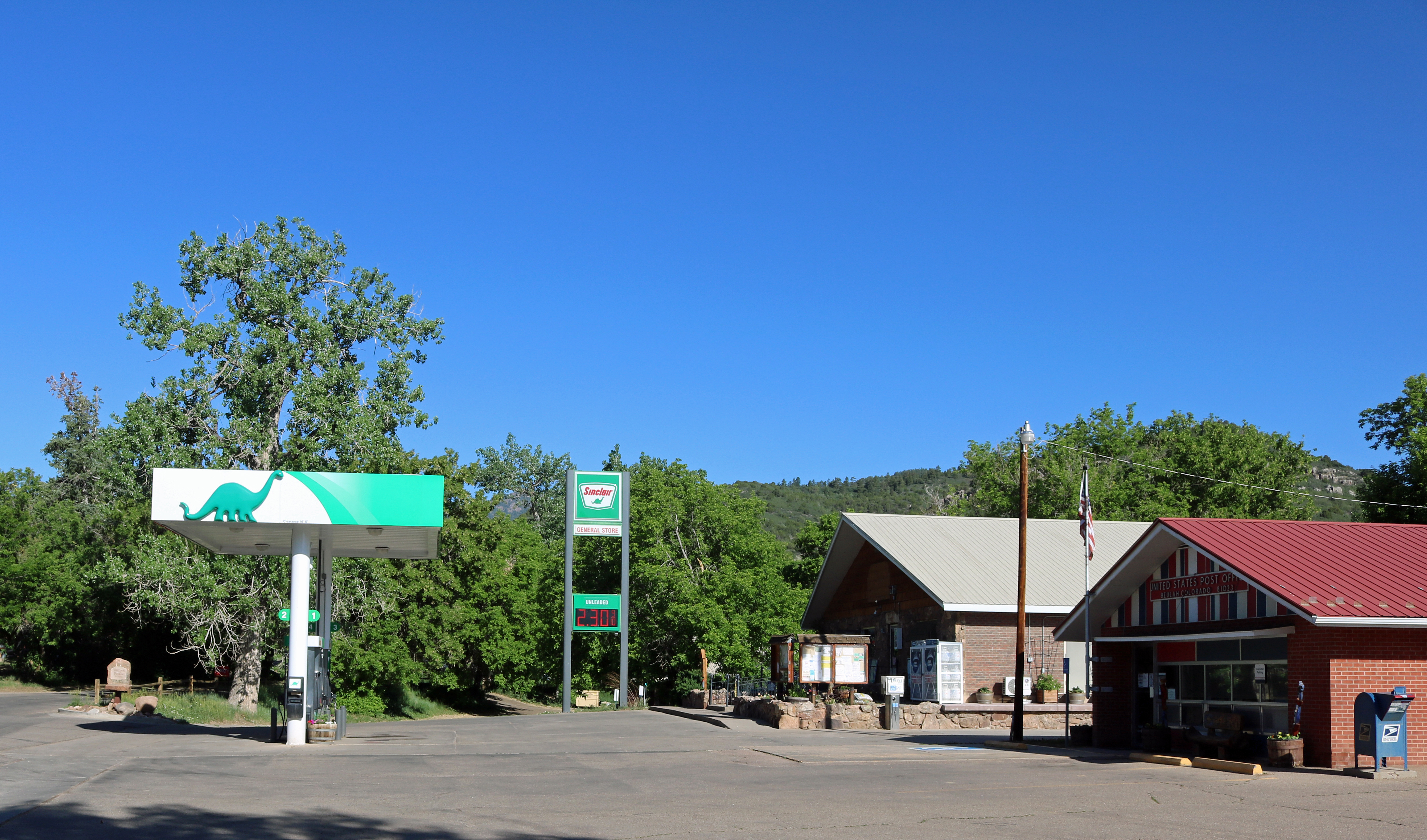 The commercial center of Beulah, Colorado. The businesses shown in the picture include a Sinclair gas station, the Buelah General Store at 8869 Grand Avenue in Beulah, and the U.S. Post Office on the right.